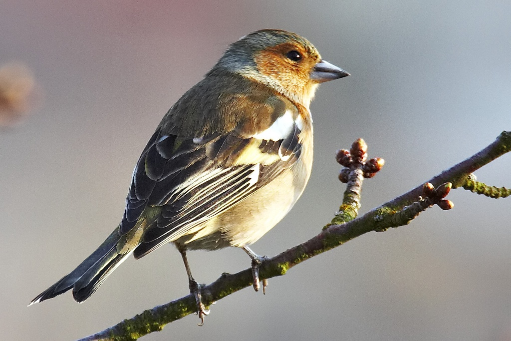 Male chaffinch (Fringilla coelebs).